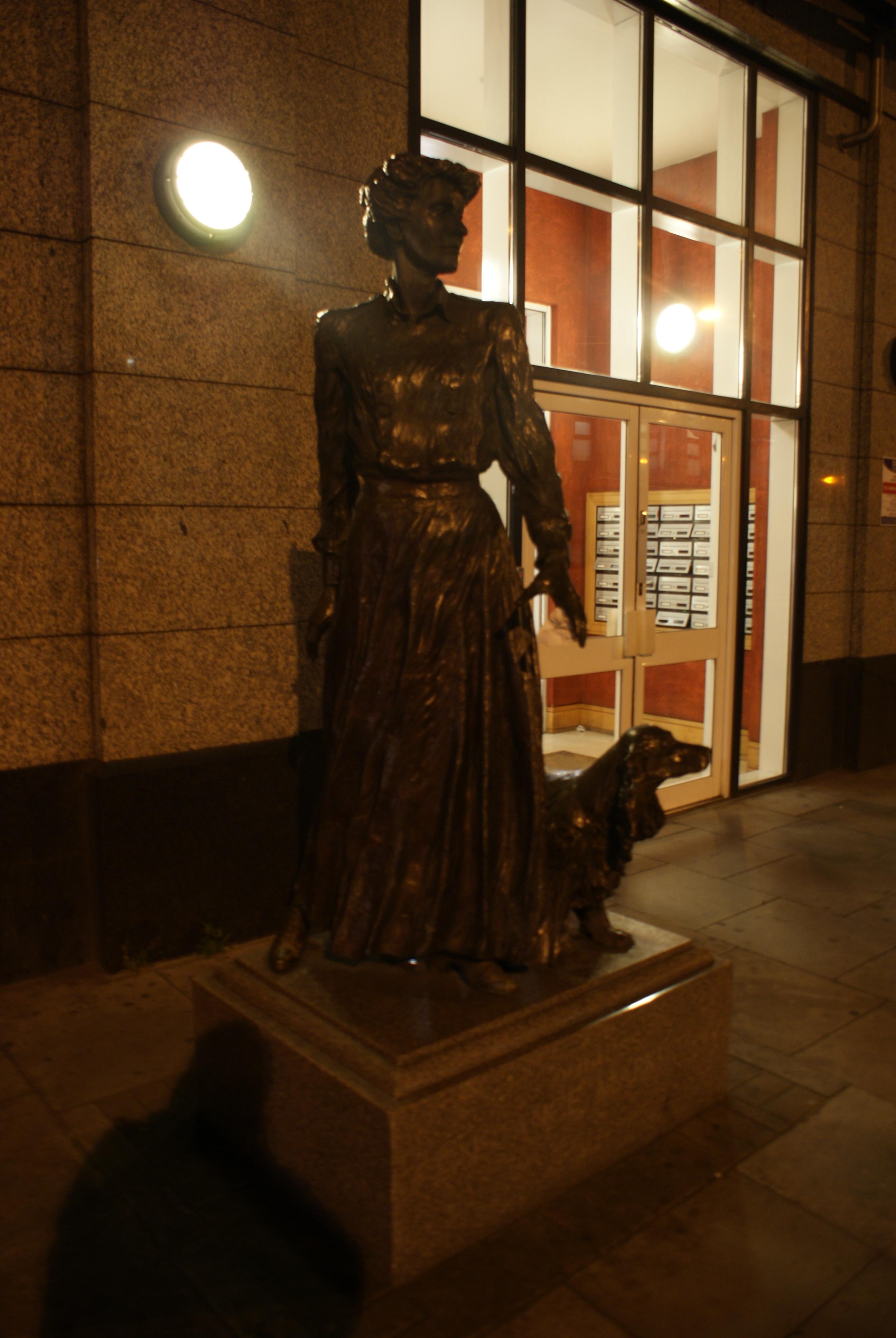 Statue of Countess Markiewicz, Townsend Street, Dublin.